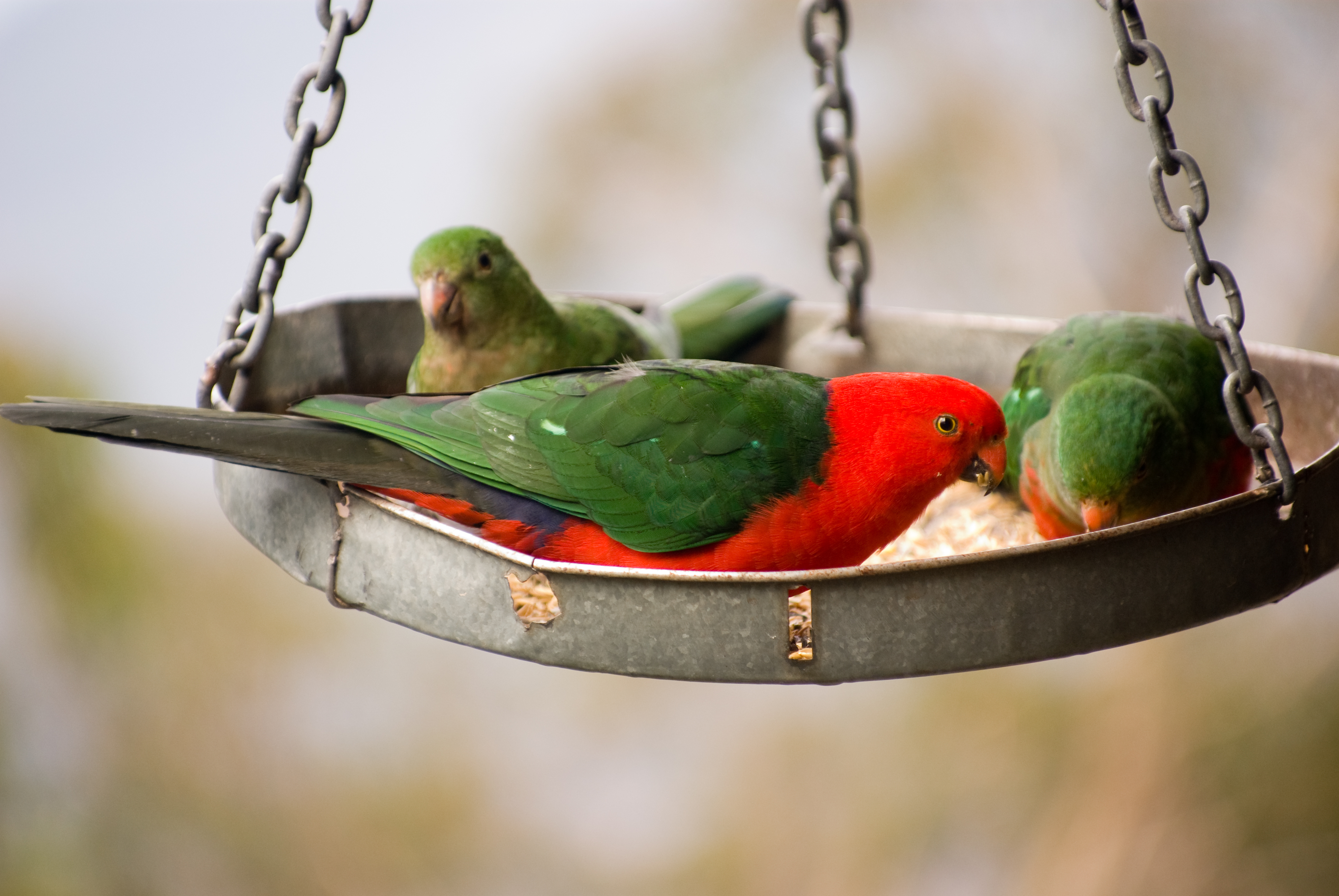 Australian King Parrot (Alisterus scapularis) Some Australian King Parrots, male in foreground with two females.